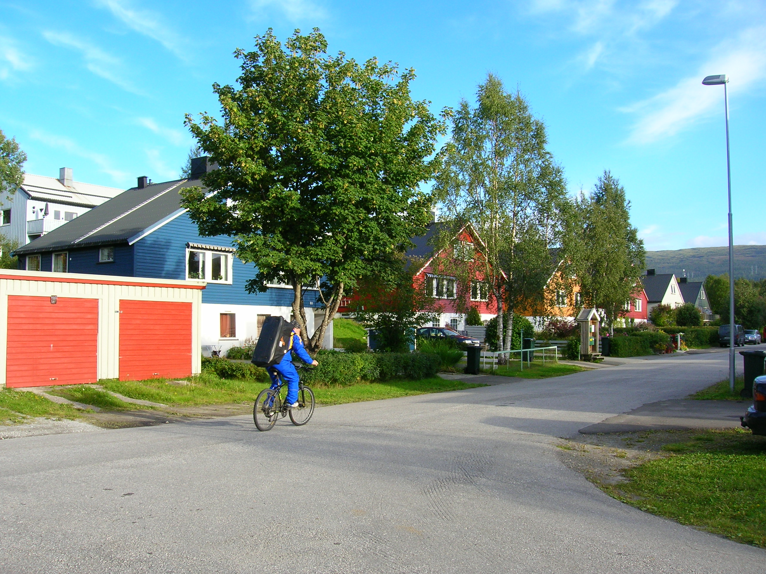 Selfors housing cooperative on Selfors, north of Mo i Rana, Rana municipality, county of Nordland, Norway, Photo 4 September, 2007 with a Nikon Coolpix 5600 5,1 Megapixel camera.